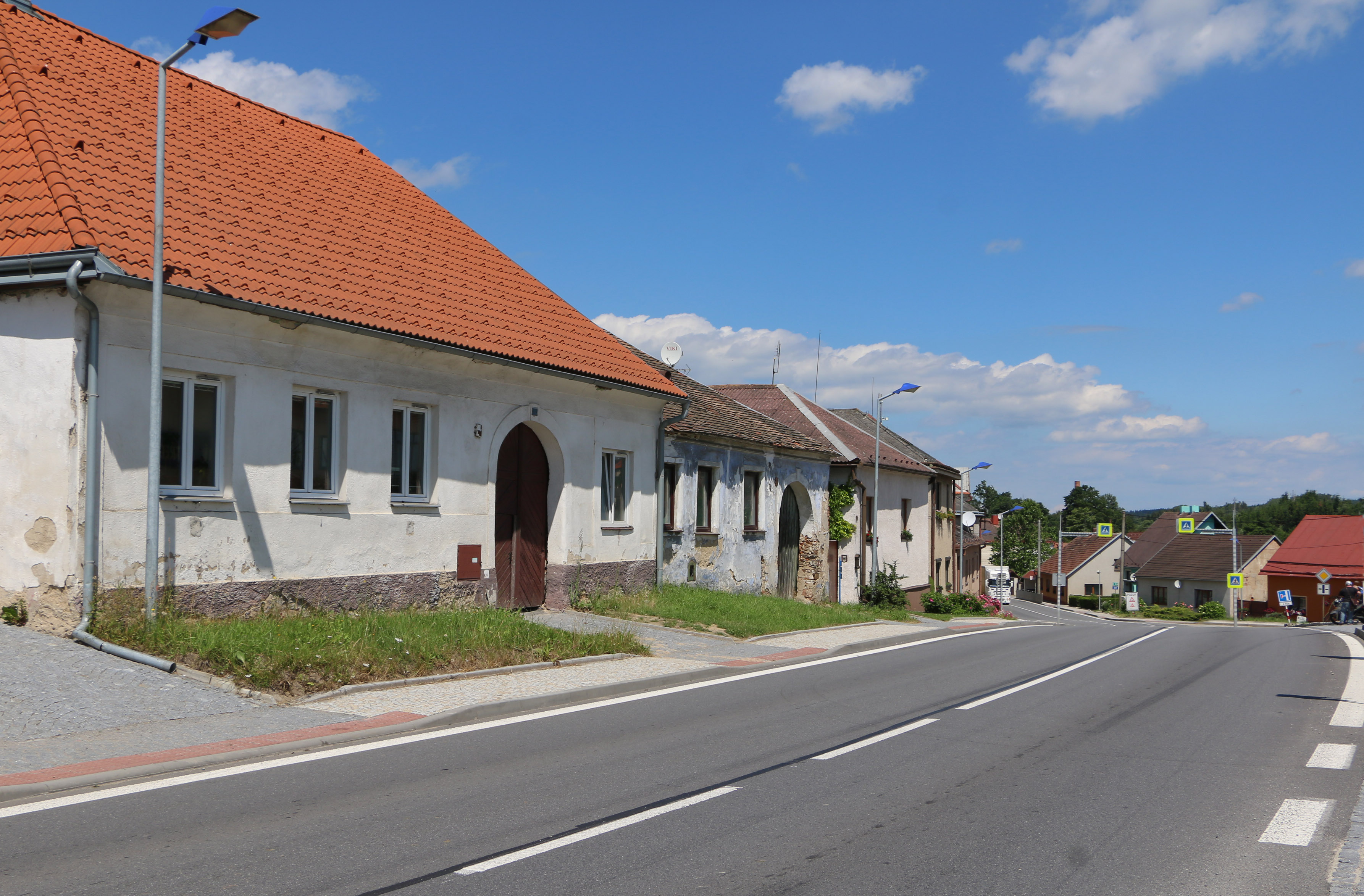 Road No 38 in Stonařov, Czech Republic.